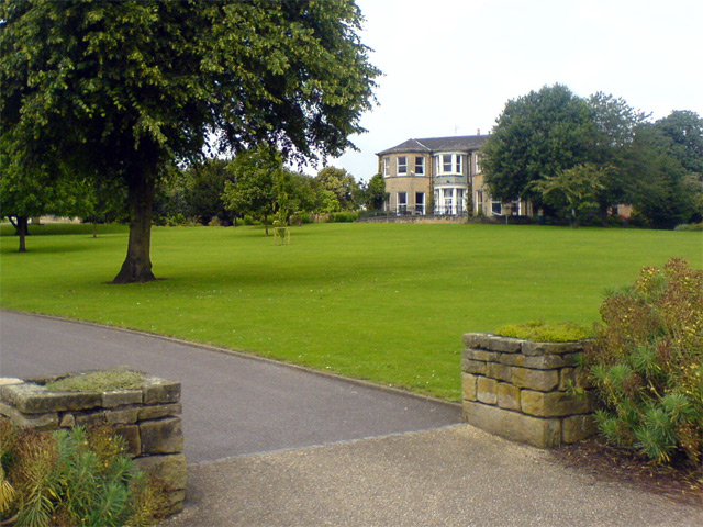 Former Portland Hall Hotel, Carr Bank Park. A view of the former Portland Hall Hotel in Mansfield's Carr Bank Park, which was renamed Mansfield Manor Hotel after a change of ownership in 2011. The park itself is a nice quiet spot within Mansfield Town.